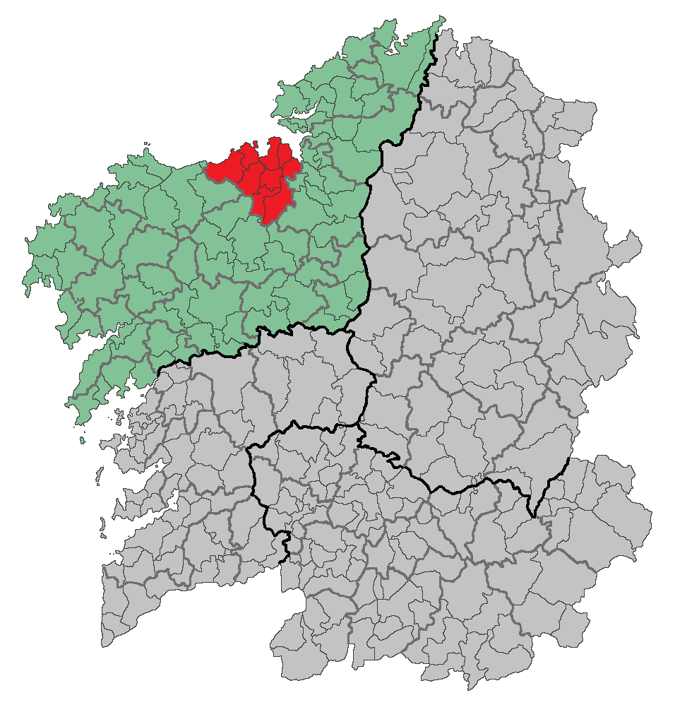 Region of Galicia (Spain)Based in: Image:Location of La Coruña.png Source: Designed by Leoplus. Original picture, designed by Caiser over a work made by Alyssalover.